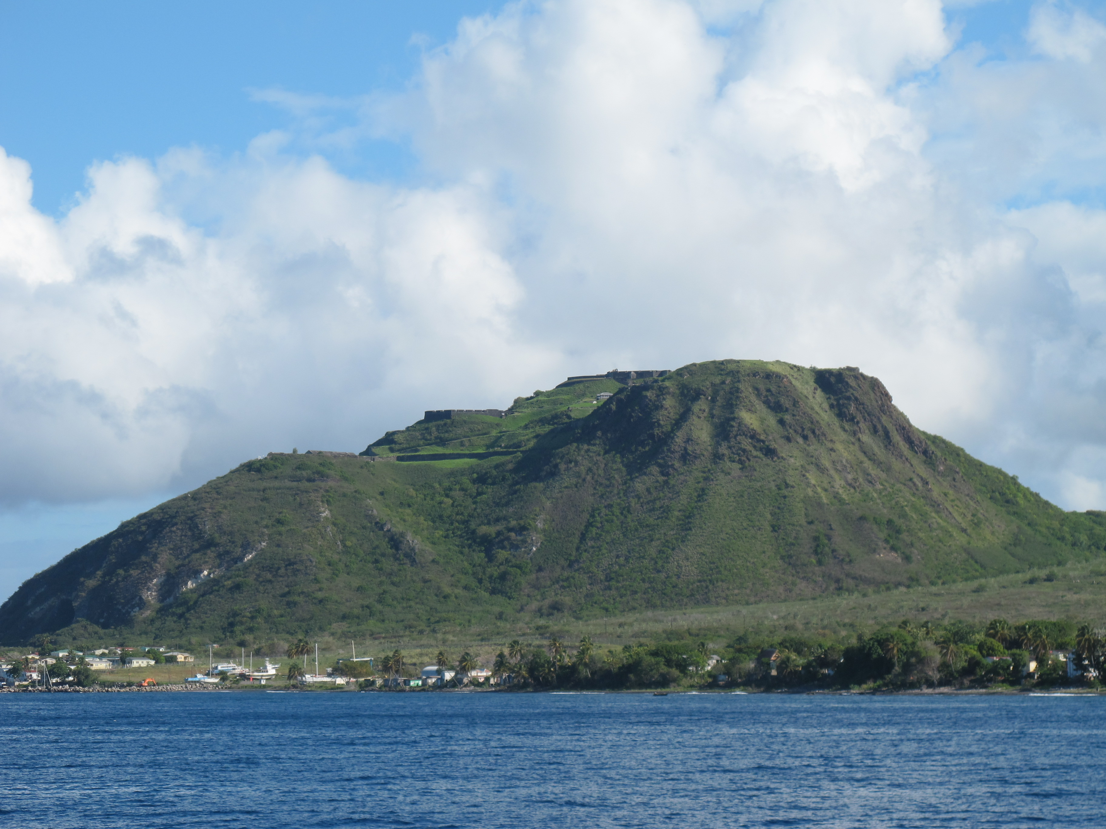 A view of Brimstone Hill from the sea, island of St. Kitts, country St. Kitts & Nevis